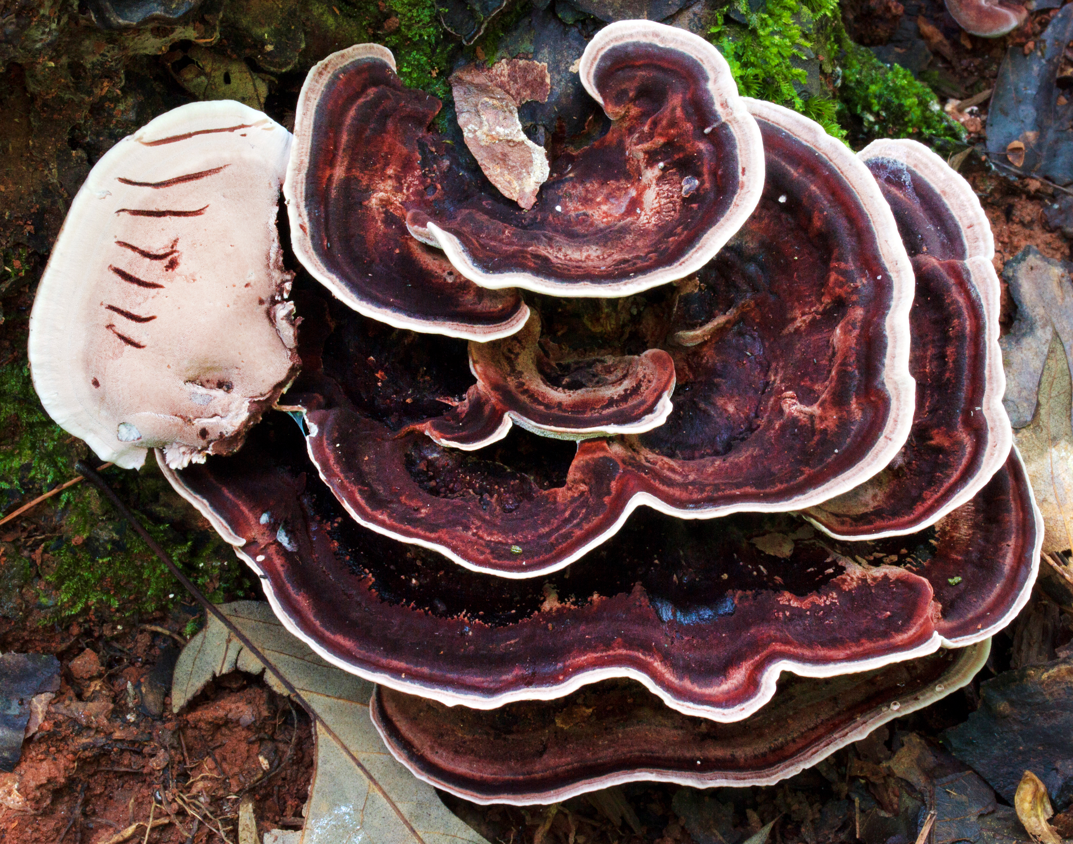 Fruit bodies of the polypore fungus Nigroporus vinosus. Photographed in Alamance Co., North Carolina, USA.